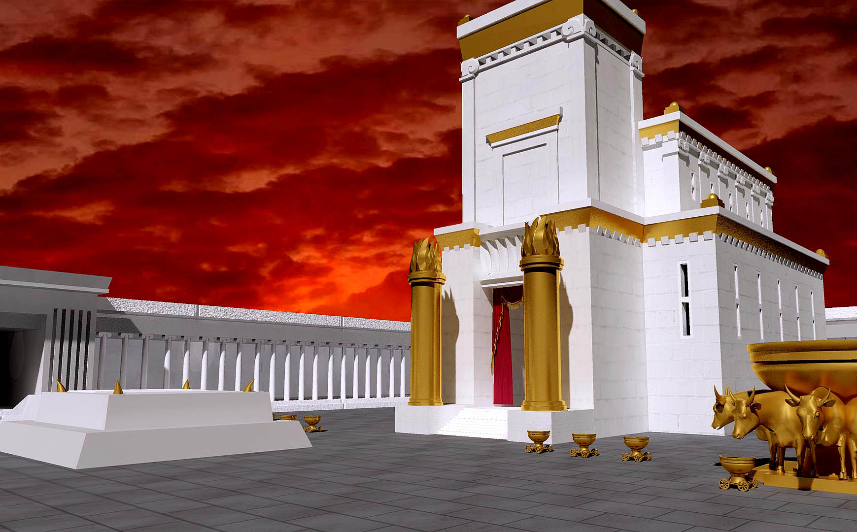 Jerusalem temple, solomon's temple, third temple